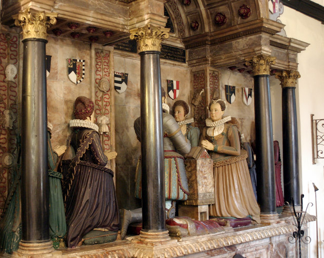 Aston Monument, St Dunstan, Cranford Park Sir Roger Aston (seen here kneeling with his wife and daughters) purchased the Cranford Park estate in 1604. Since no male heir survived him, the estate was acquired in 1618 by Elizabeth Lady Berkeley. The living still remains in the gift of the Berkeley family.